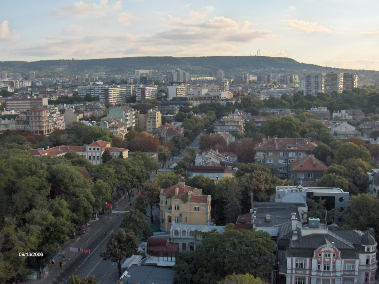 Overview of the beautiful sea town of Varna which is situated on the Bulgarian Black Sea coast.